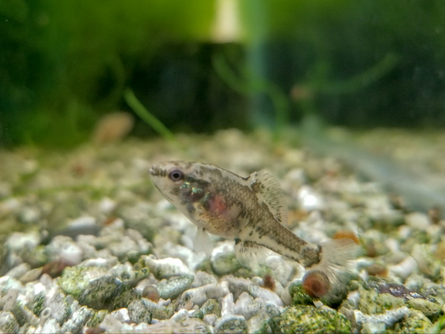 Spring Pygmy Sunfish in an aquarium at CFI